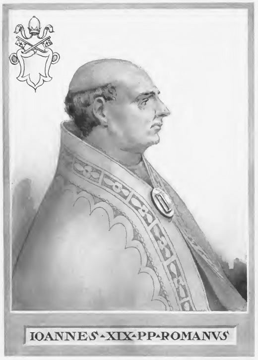 This illustration is from The Lives and Times of the Popes by Chevalier Artaud de Montor, New York: The Catholic Publication Society of America, 1911. It was originally published in 1842. This Pope was in the past erroneously referred to as John XIX.